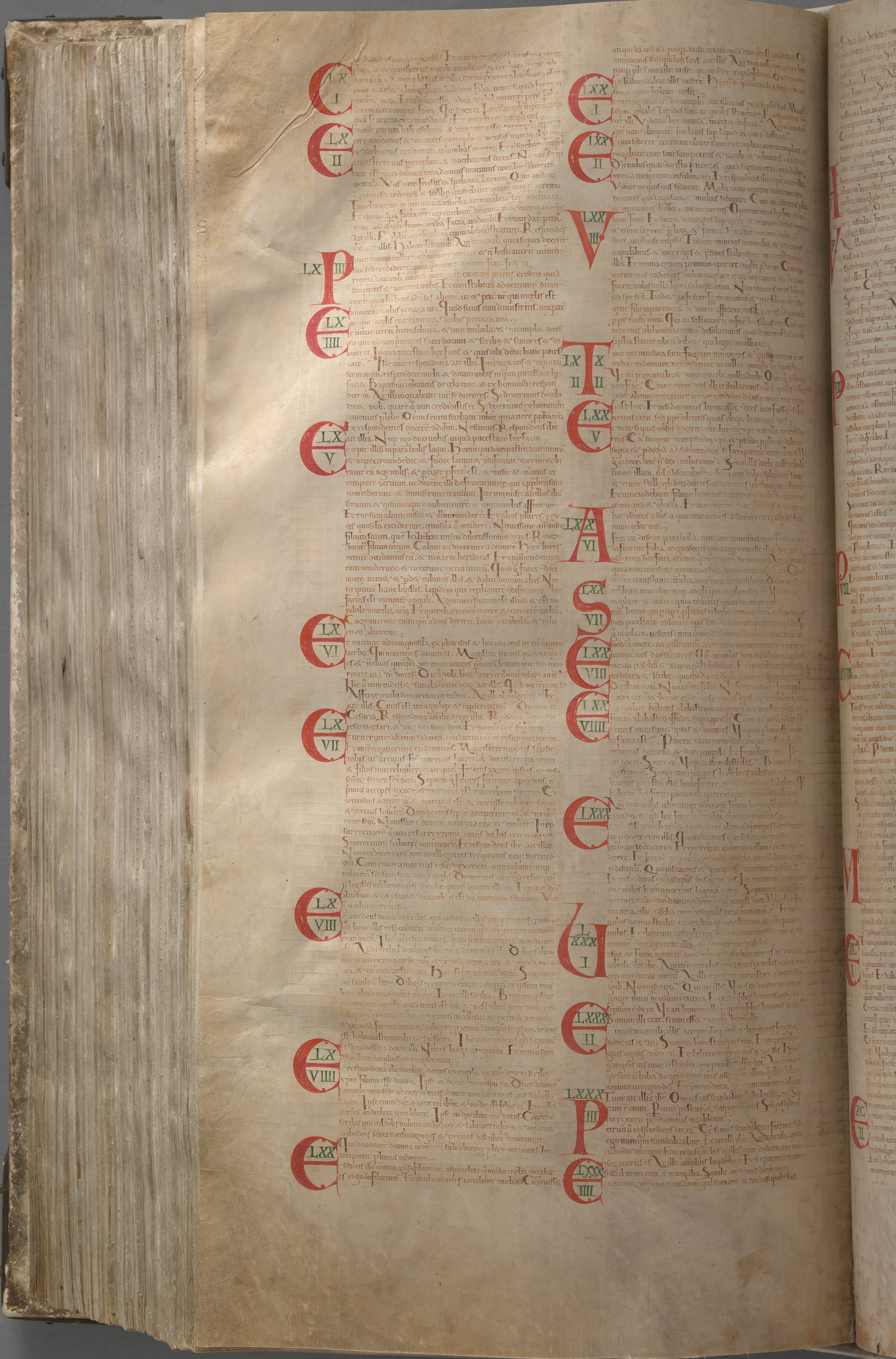 Giant Book) is the largest extant medieval manuscript in the world. It is also known as the Devil's Bible because of a large illustration of the devil on the inside and the legend surrounding its creation. It is thought to have been created in the early 13th century in the Benedictine monastery of Podlažice in Bohemia (modern Czech Republic). It contains the Vulgate Bible as well as many historical documents all written in Latin. During the Thirty Years' War in 1648, the entire collection was taken by the Swedish army as plunder, and now it is preserved at the National Library of Sweden in Stockholm, though it is not normally on display.